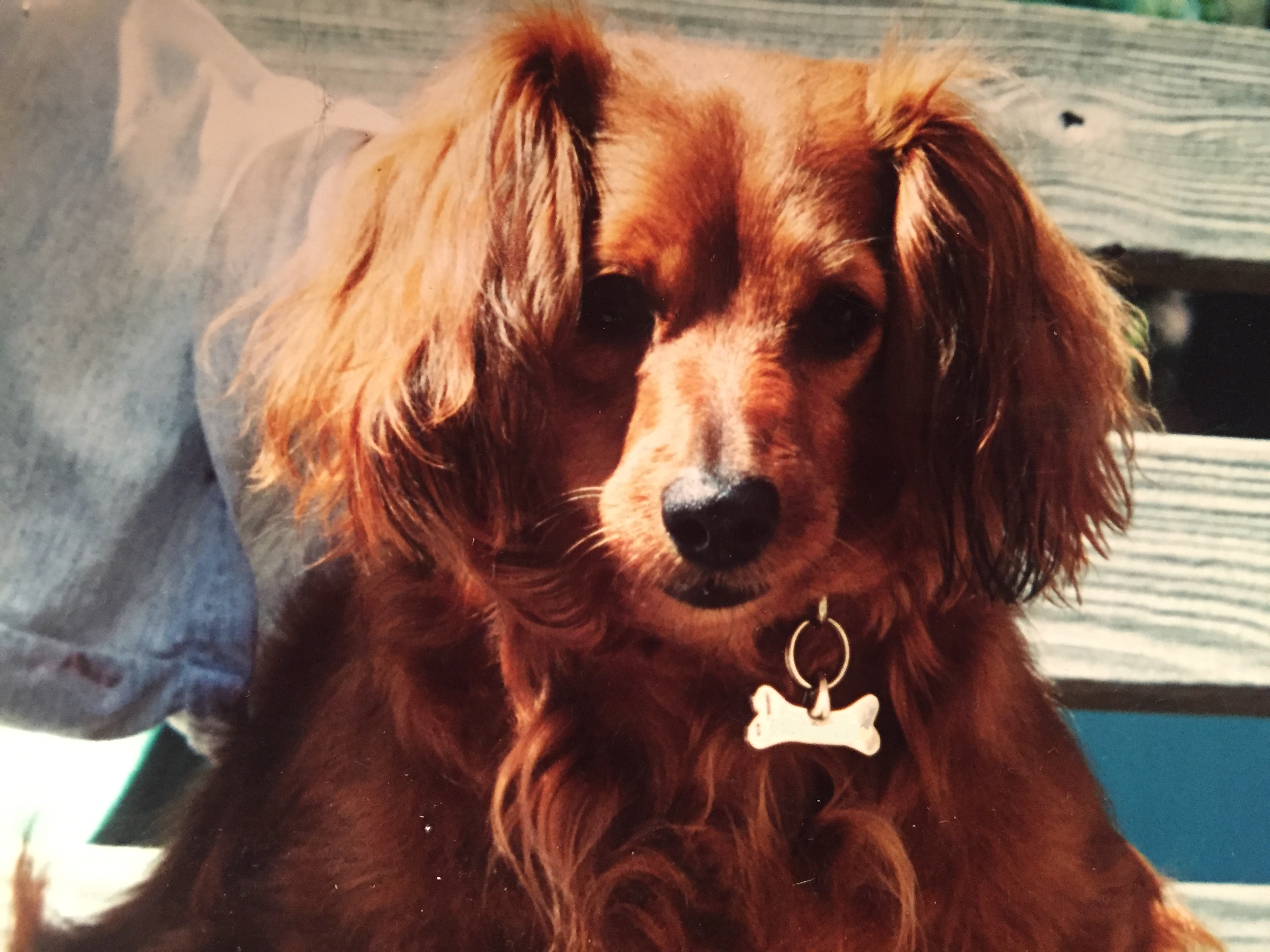 A red haired dachshund named Trixie.